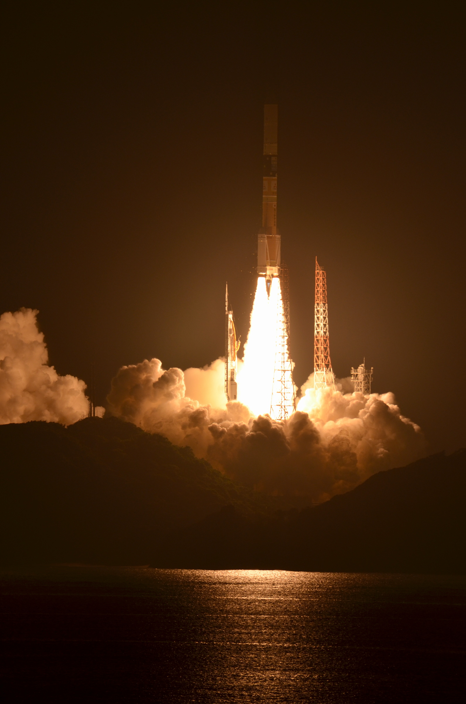 H-IIA Launch Vehicle Flight 21, launching the Global Change Observation Mission 1st - Water "SHIZUKU" (GCOM-W1).